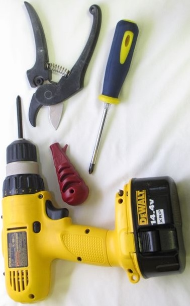 4 common tools used in face mask removal